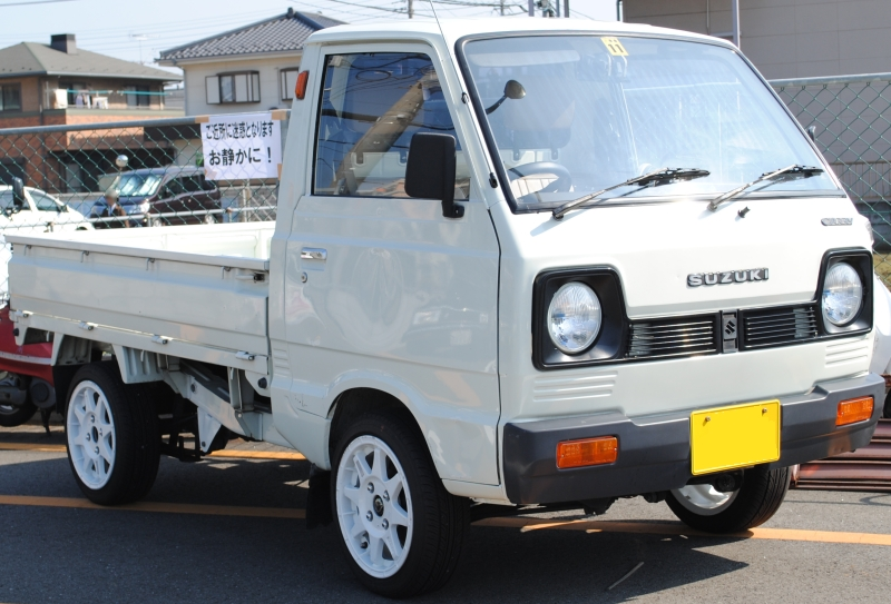 Suzuki Carry.